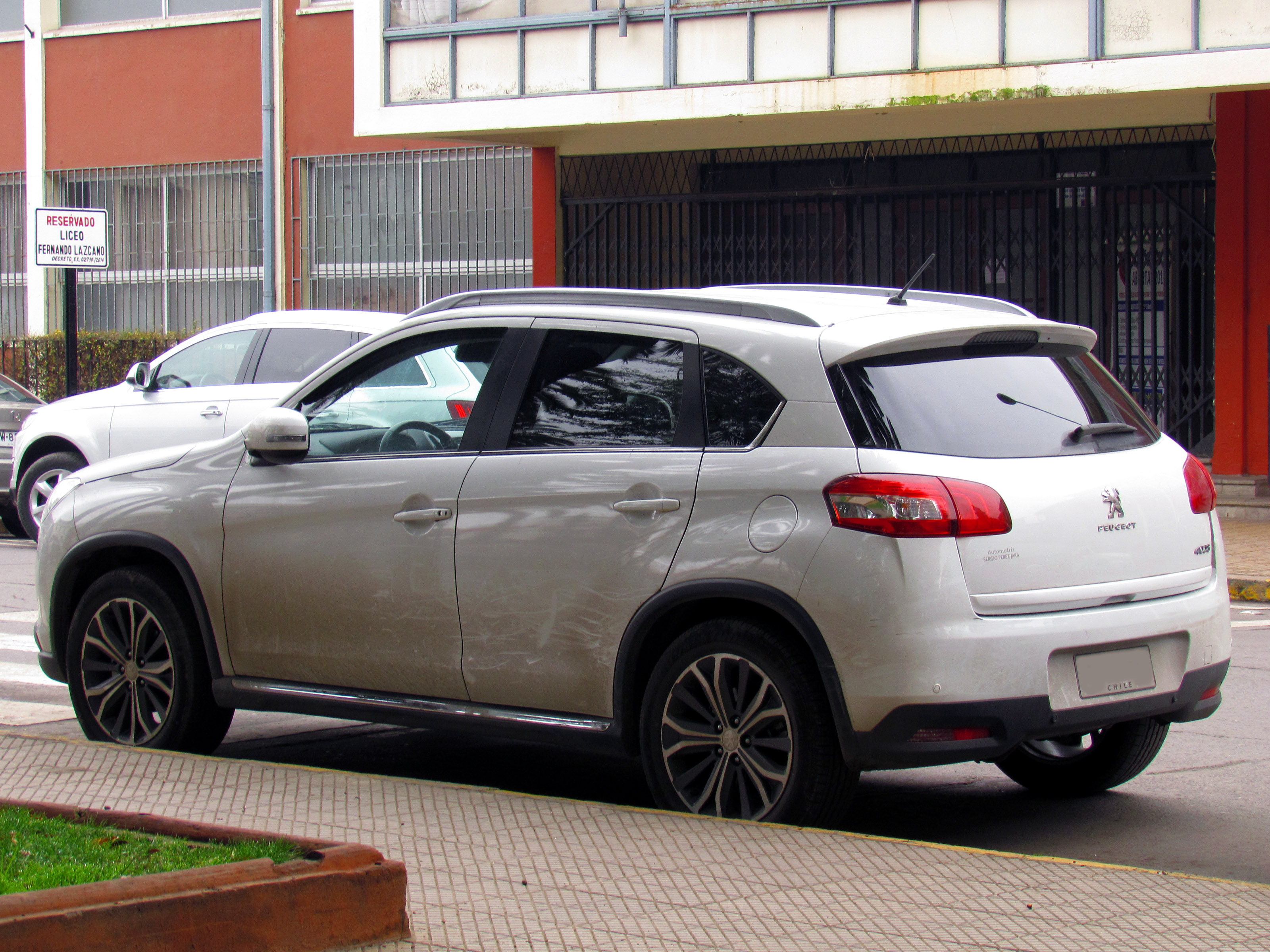 Peugeot 4008 2.0 Active 2014